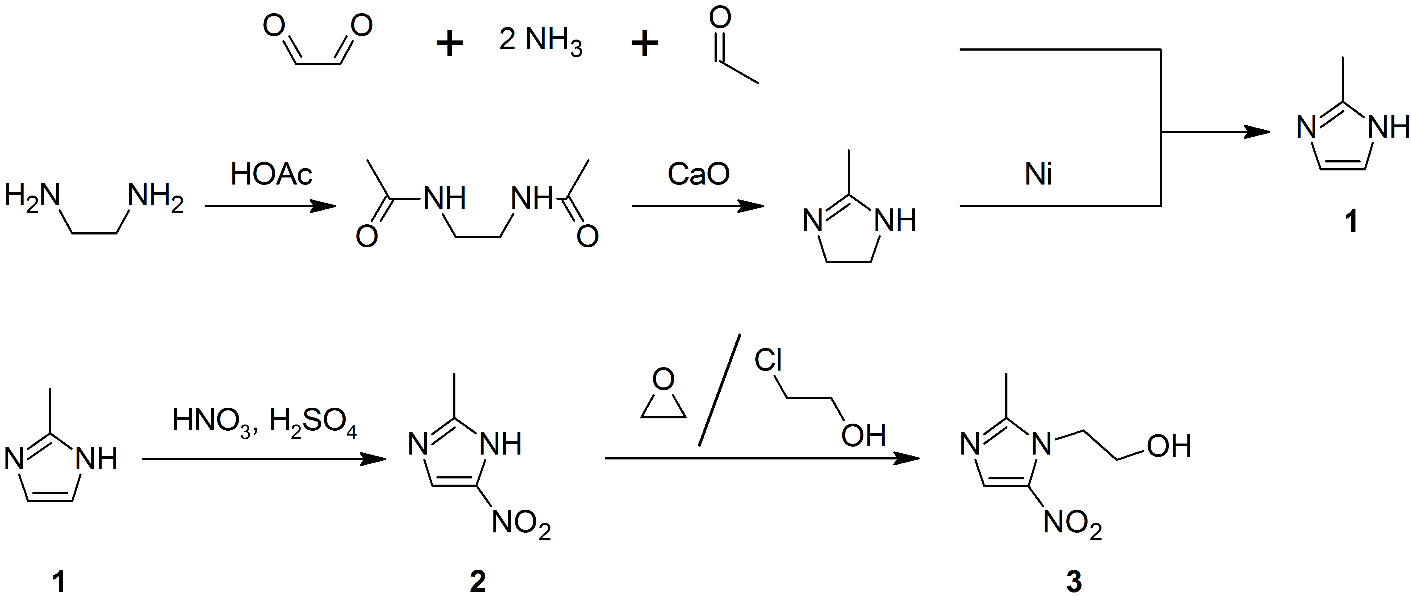 Synthesis of metronidazole Klaus Ebel, Hermann Koehler, Armin O. Gamer, Rudolf Jäckh (2005), “Imidazole and Derivatives”, in Ullmann’s Encyclopedia of Industrial Chemistry, Weinheim: Wiley-VCH, Paul Actor, Alfred W. Chow, Frank J. Dutko, Mark A. McKinlay (2005), “Chemotherapeutics”, in Ullmann’s Encyclopedia of Industrial Chemistry, Weinheim: Wiley-VCH, (1989). "Synthesis of metronidazole from ethylenediamine". Pharmaceutical Chemistry Journal 23 (10): 861.